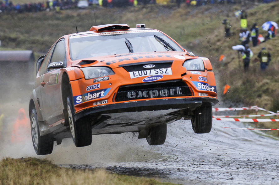 Wales Rally Great Britain 2010 Ford Ford Focus RS WRC 08,Henning Solberg,Rally,Rallye,Stephane Prevot,Stobart M-Sport Ford Rally Team,Sweet Lambs,WRC